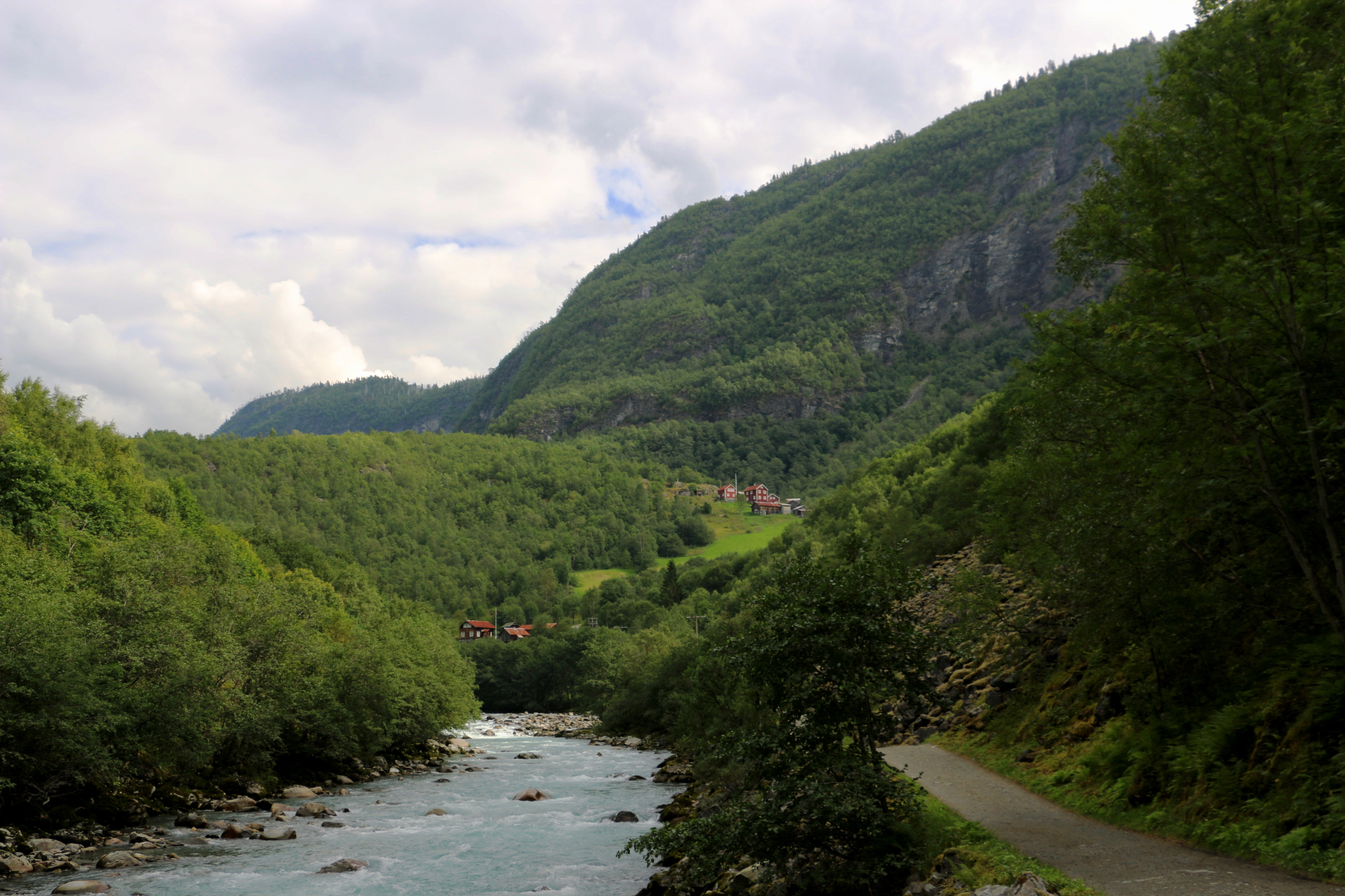 The farms of Vetti gard in Utladalen